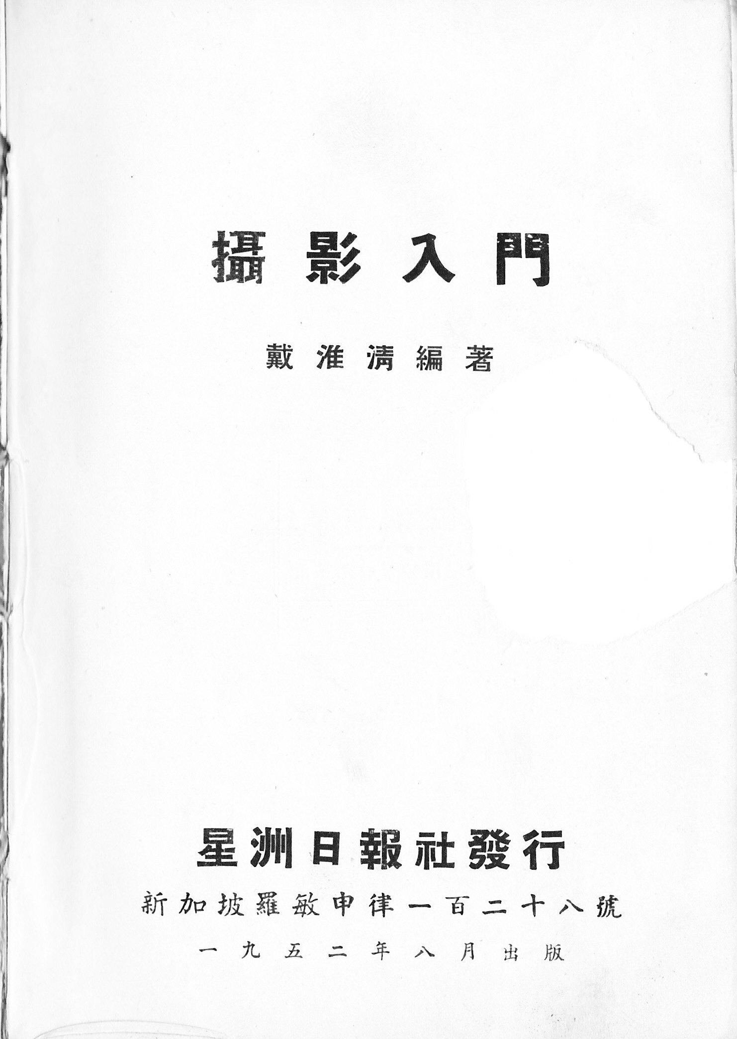 Introduction to Photography, 1952 Singpore out of copyright due to age